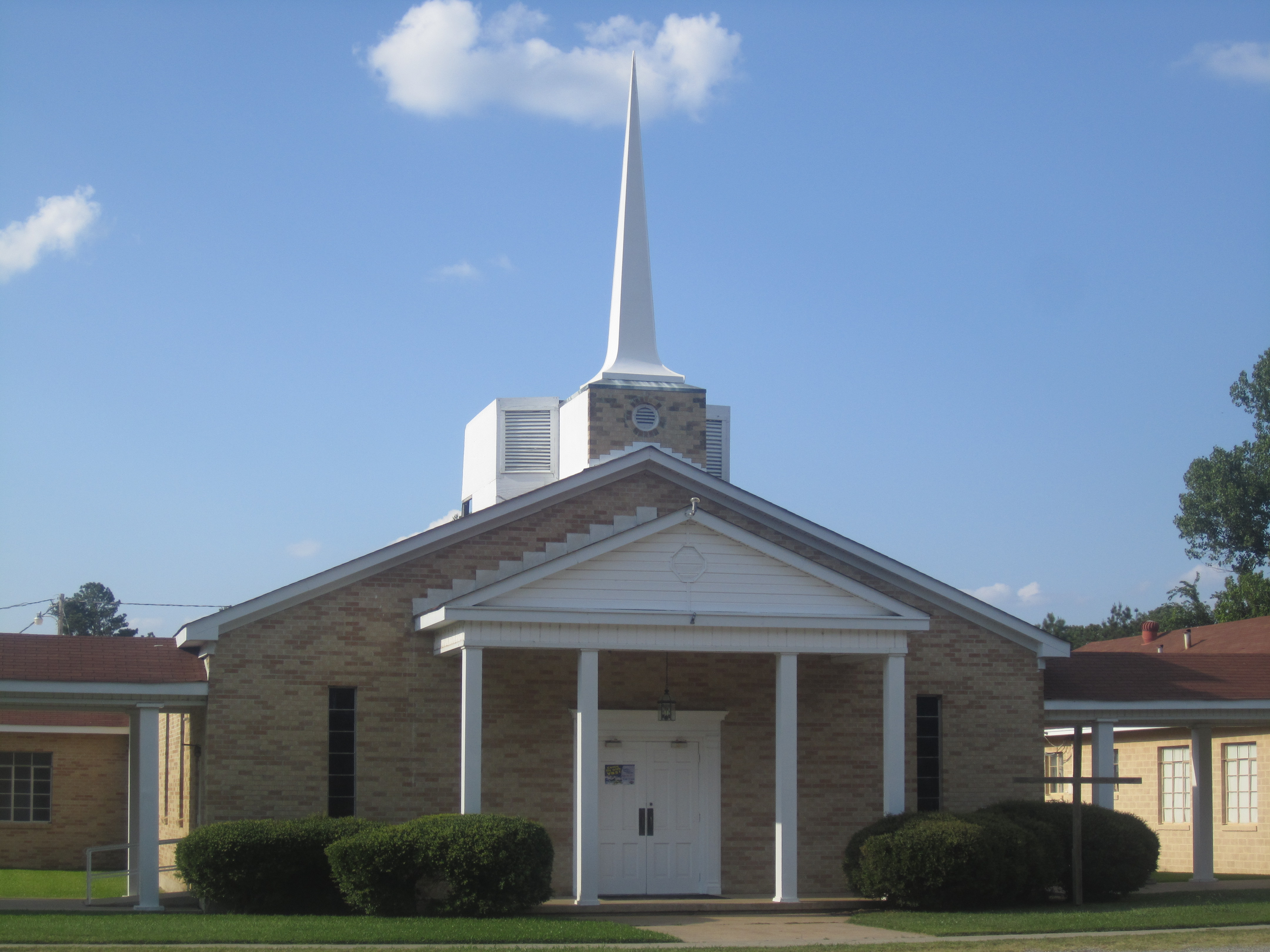 I took photo on June 9, 2012 with Canon camera in Bradley, AR.Billy Hathorn (talk) 02:11, 29 June 2012 (UTC)